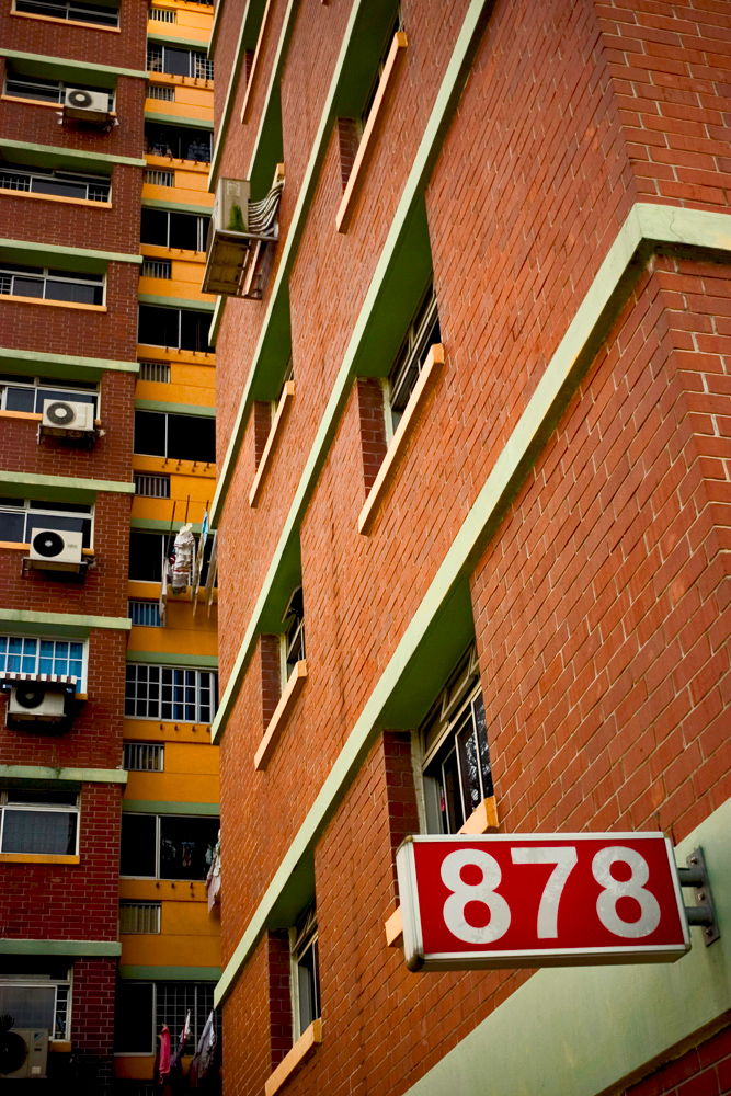 Block 828 Woodlands Avenue 9, Singapore.